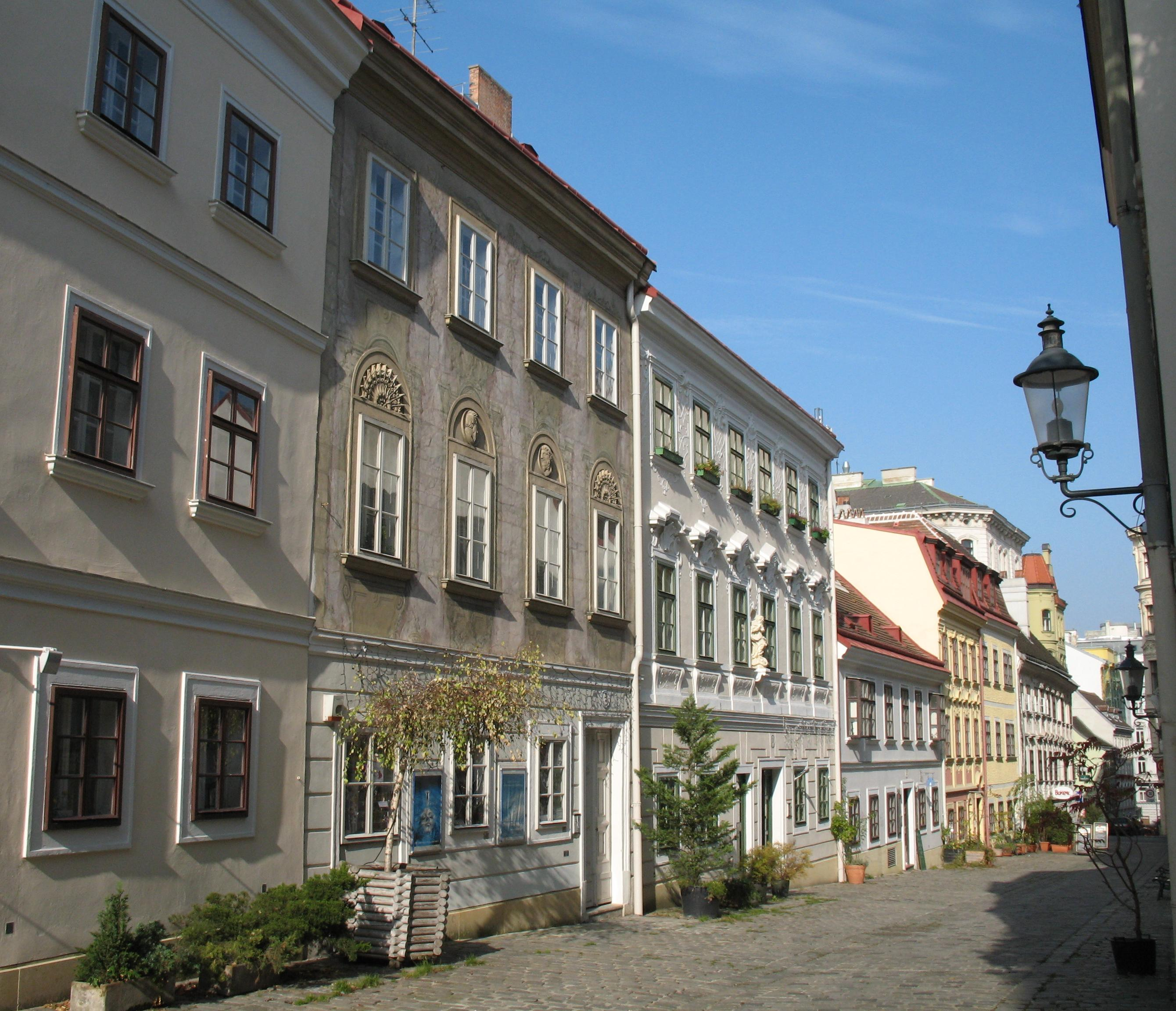 Street in Vienna, Austria